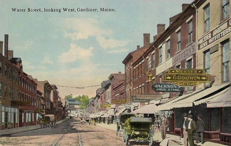 Water Street, looking west, Gardiner, Maine